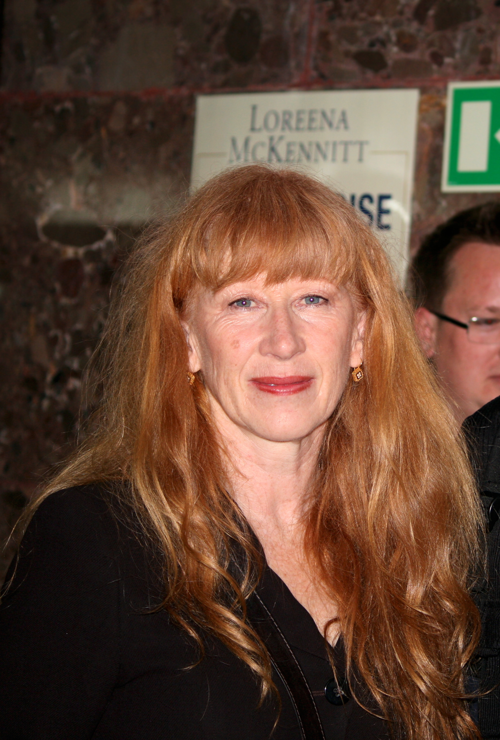 Loreena McKennitt in Zabrze (Poland), 26.03.2012